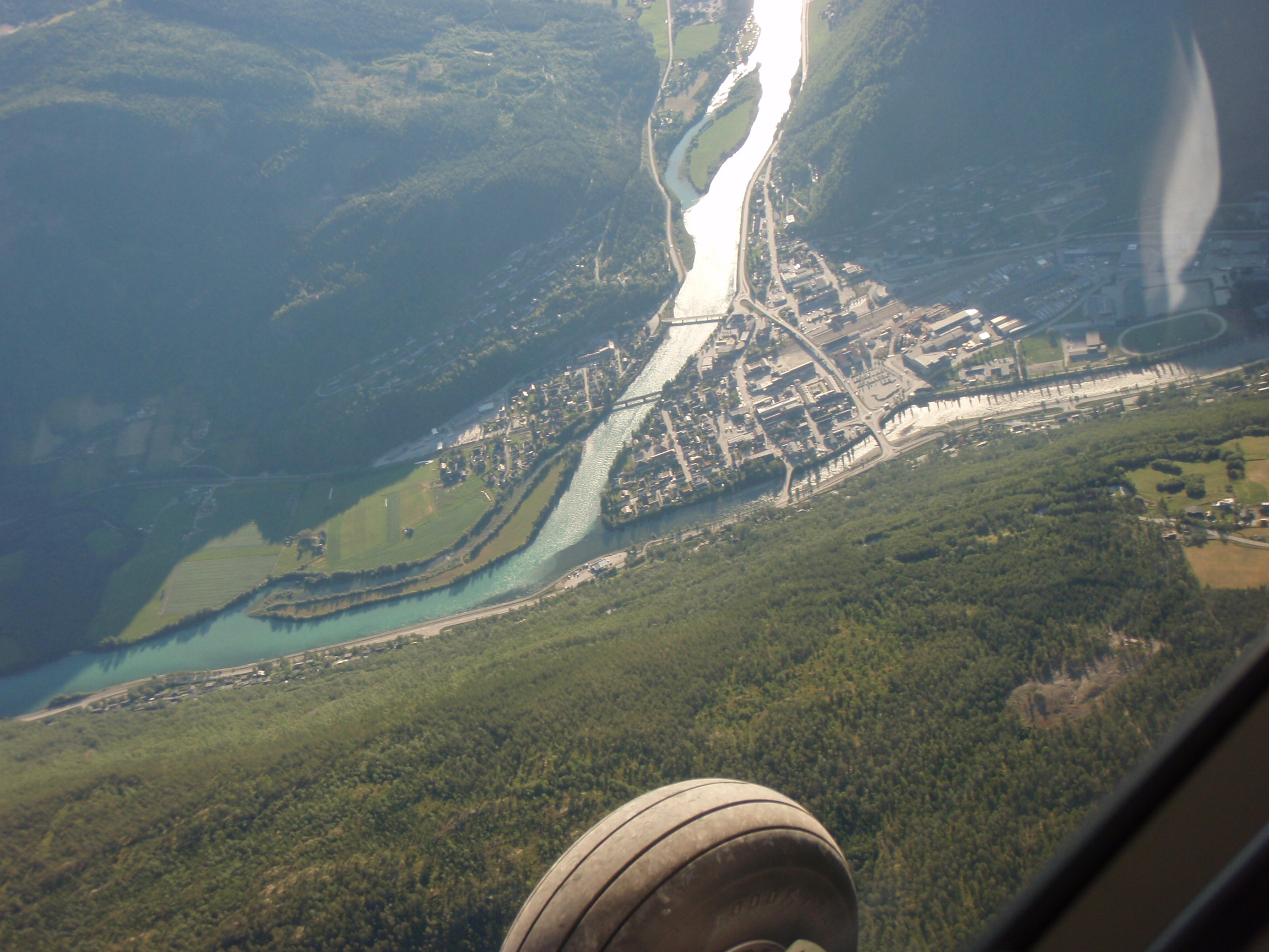 Aerial photo of Otta village.